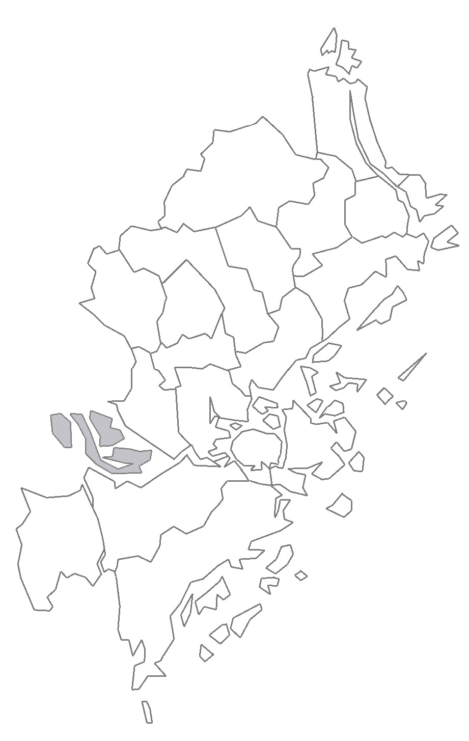 Map describing the location of Färentuna Hundred in Stockholm County, Sweden.